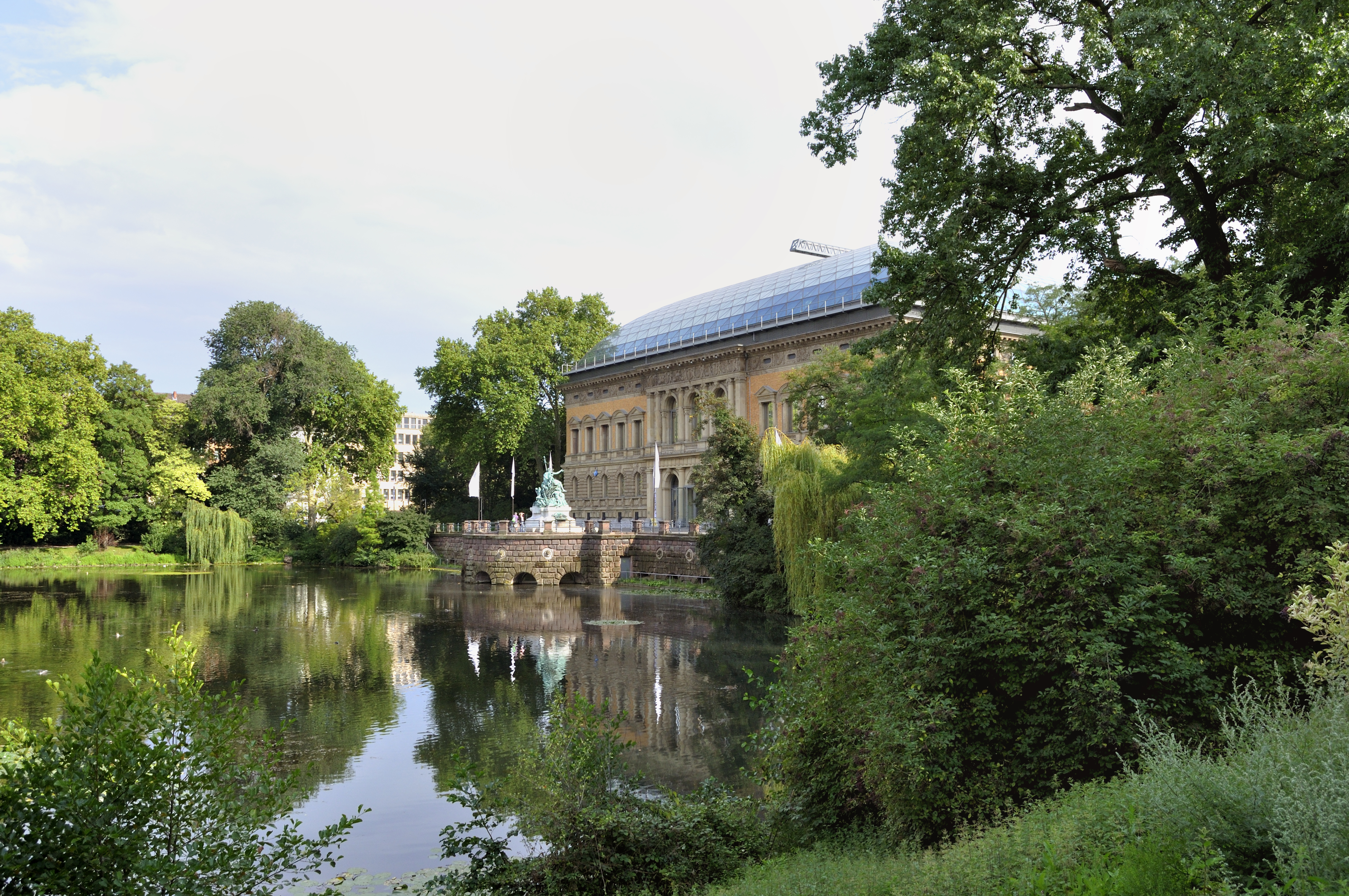 Picture taken in Düsseldorf before Duisburg summer meetup 2010.